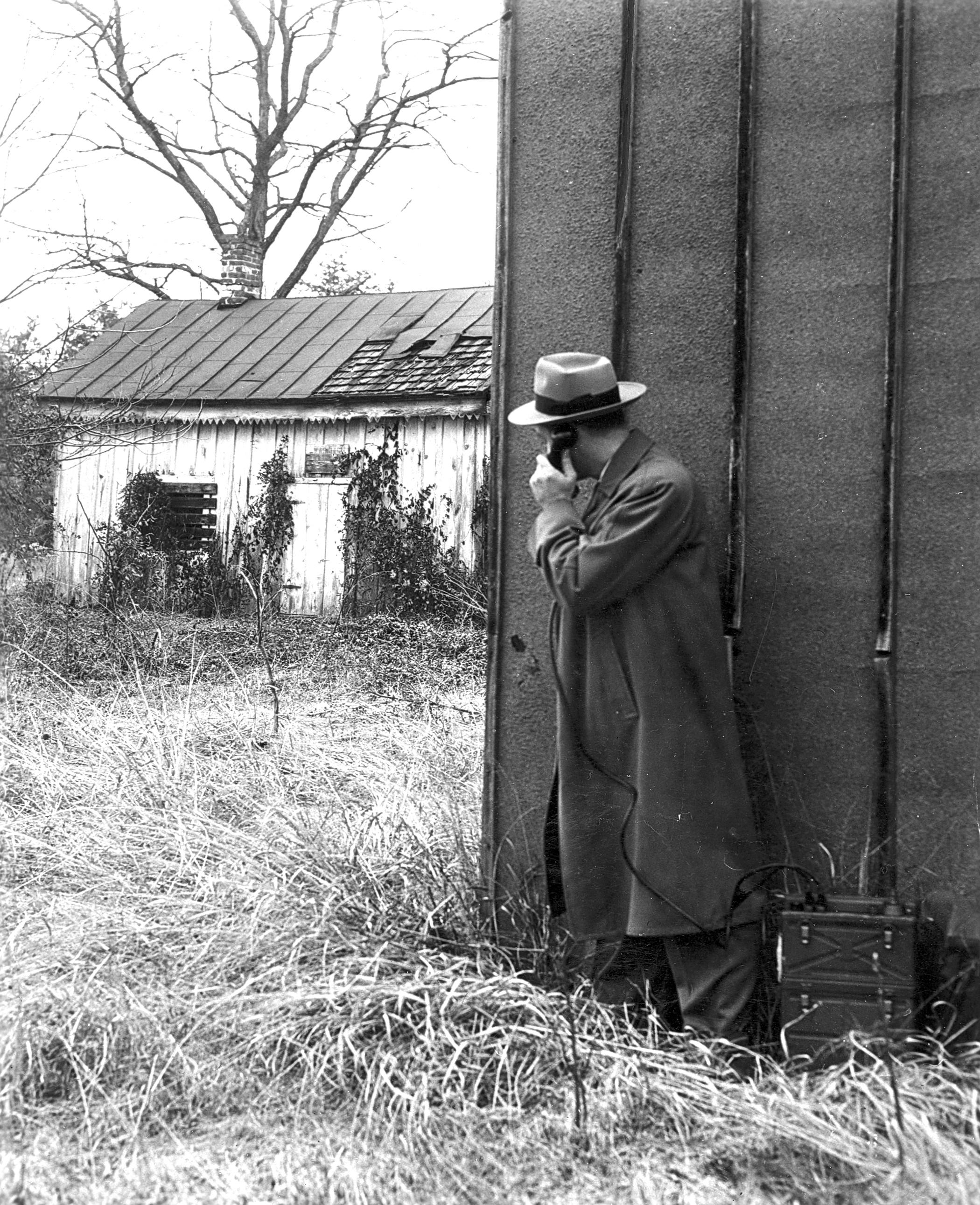 FBI agent in 1939 with portable telephone.